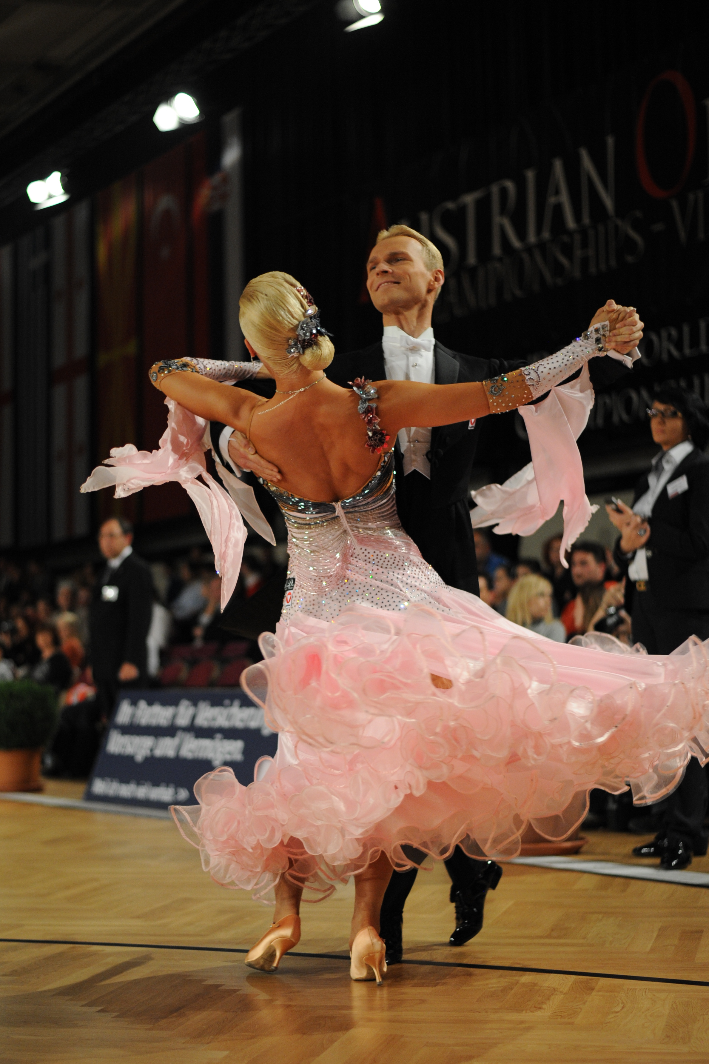 The making of this work was supported by Wikimedia Austria. For other files made with the support of Wikimedia Austria, please see the category Supported by Wikimedia Österreich. WDSF World Open Standard am 17. November 2012 in Wien: Vadim Garbuzov und Kathrin Menzinger beim Langsamen Walzer